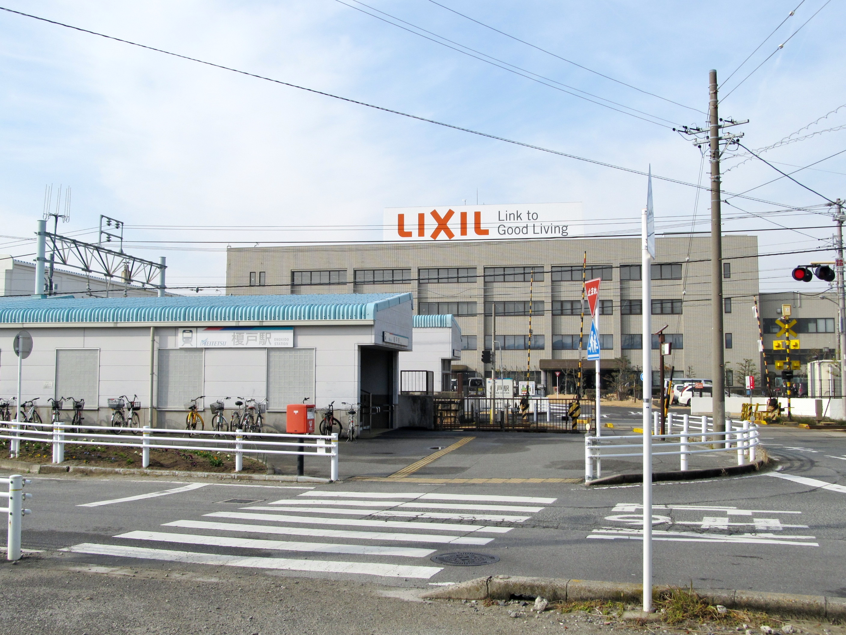 Nagoya Railroad Tokoname Line Enokido Station